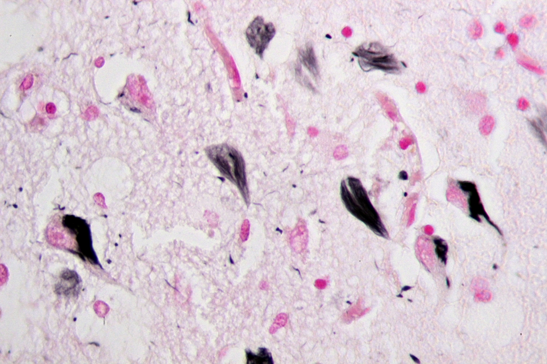 Neurofibrillary tangles in the Hippocampus of an old person with Alzheimer-related pathology.